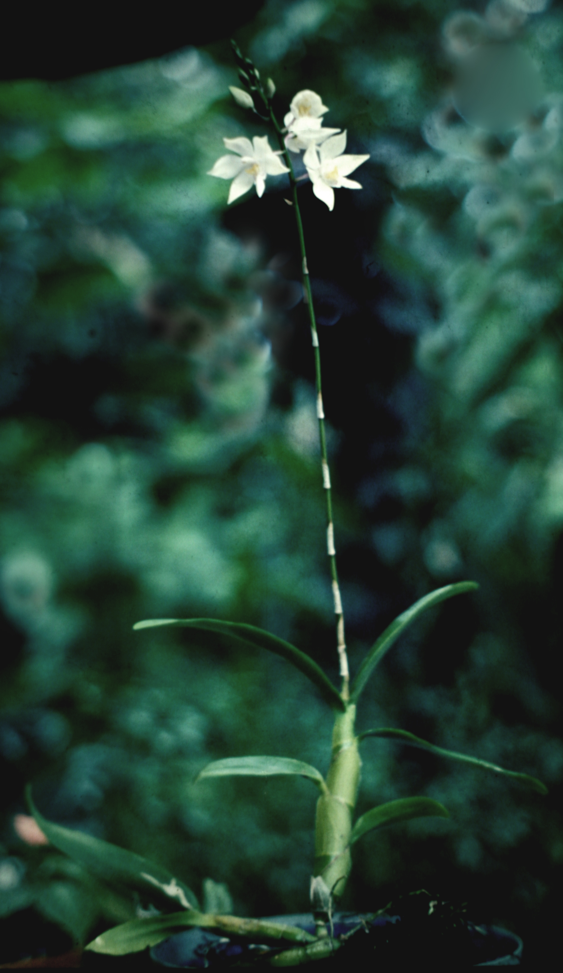 Caularthron bicornutum, Suriname. Plant found near Corantijn river